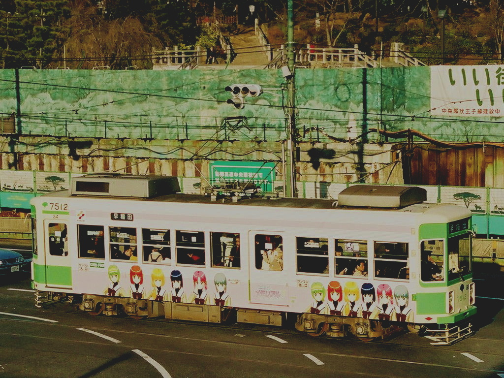 Tokyo Metropolitan Bureau of Transportation(Toden_Arakawa_Line) streetcar,type 7500,No.7512(with wrap advertising of video game Tokimeki Memorial 3),in Asukayama intersection, Kita-ku, Tokyo.